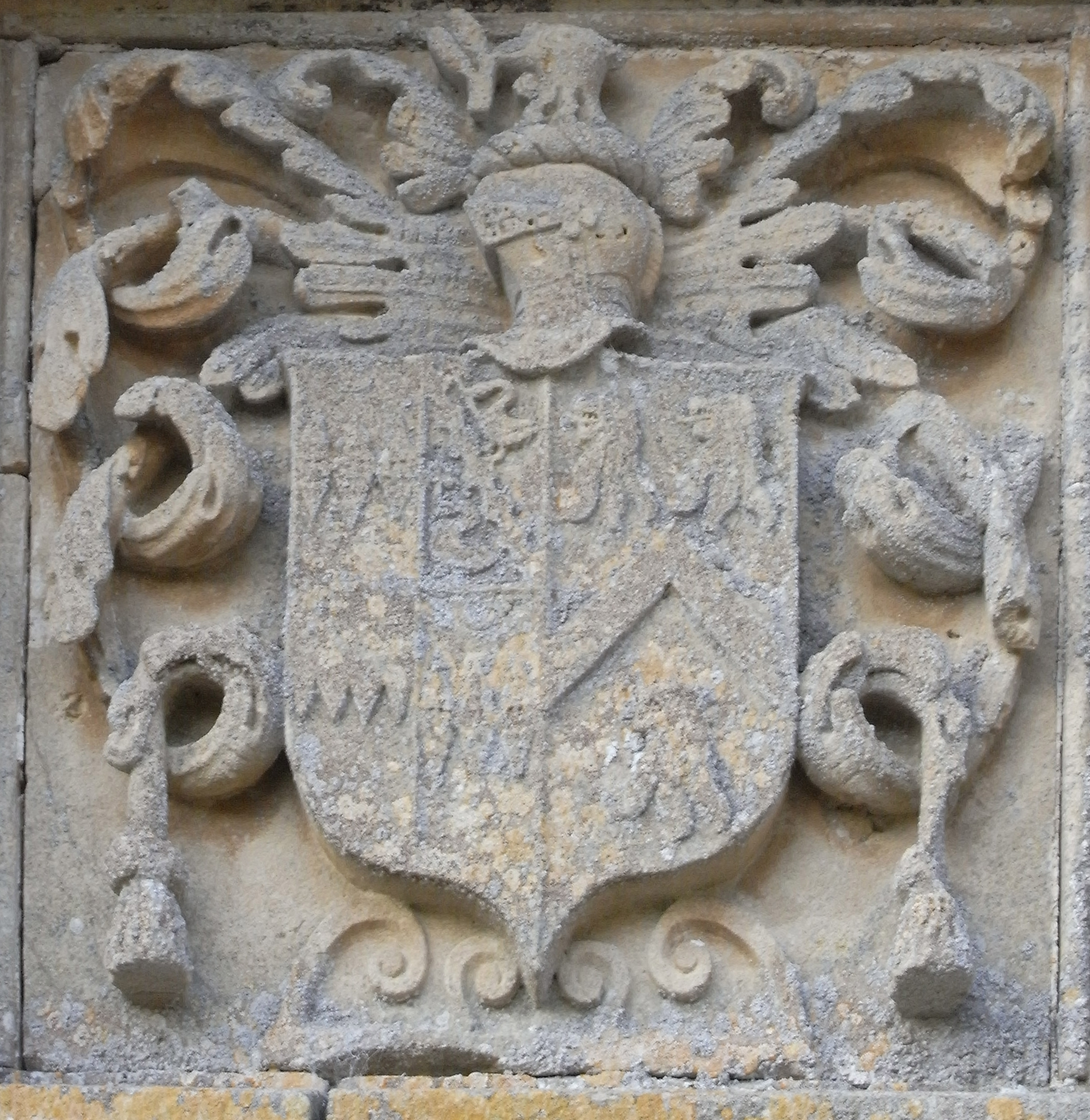 Sculpted stone heraldic escutcheon above porch, Brightley Barton, Devon, showing arms of Giffard impaling Wyndham. Atop the helm is the crest of Giffard: A cockrel's head erased, in its beak an ear of wheat. The arms of Giffard (1st & 4th): Sable, three fusils conjoined in fesse ermine for difference a crescent in chief argent. quarter Coblegh (2nd): Gyronny of eight gules and sable, between two cobs (i.e. male swans) argent on a bend engrailed of the last three hurts and de Brightley (FitzWarin), (3rd): Gules, on a chief indented argent a mullet of the first. These arms can be seen more clearly sculpted on the mural monument in Tiverton Church of Roger Giffard (d.1603). Source: Pole, Sir William (d.1635), Collections Towards a Description of the County of Devon, Sir John-William de la Pole (ed.), London, 1791, p.476 ("Coblegh of Brightley" arms)